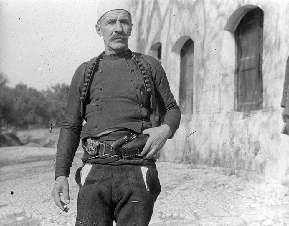 Isa Boletini, Dutch Military Mission (1914)